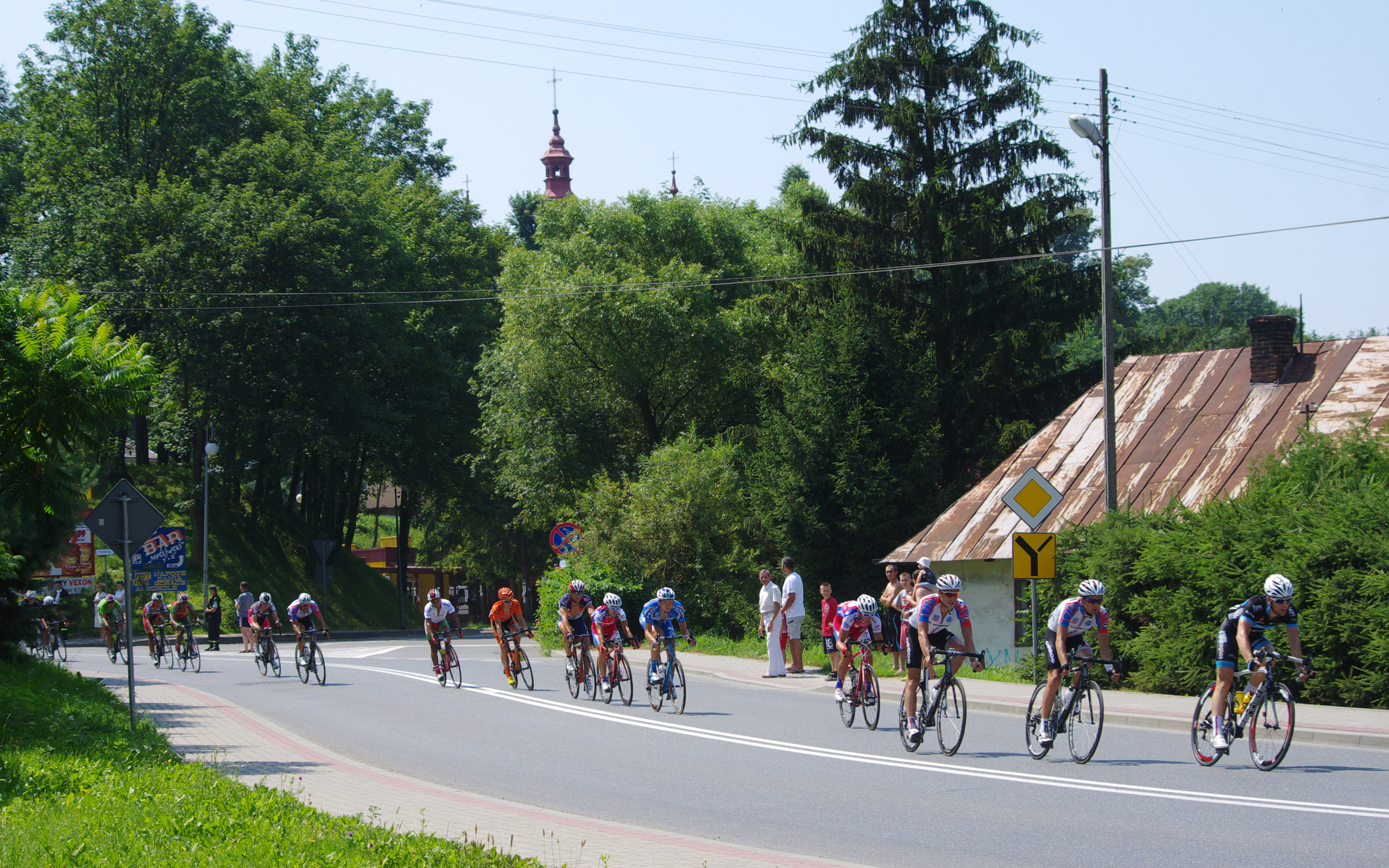 23rd Race of Solidarity and Olympics. This picture was taken on Grunwaldzka Street in Dynów, Poland.